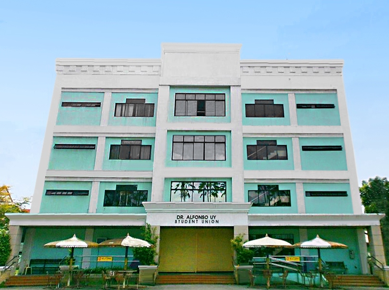 Alfonso A. Uy Student Union Building of Central Philippine University (Mini foodcourt)